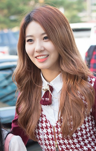 Dahye of Bestie on 25 October 2014